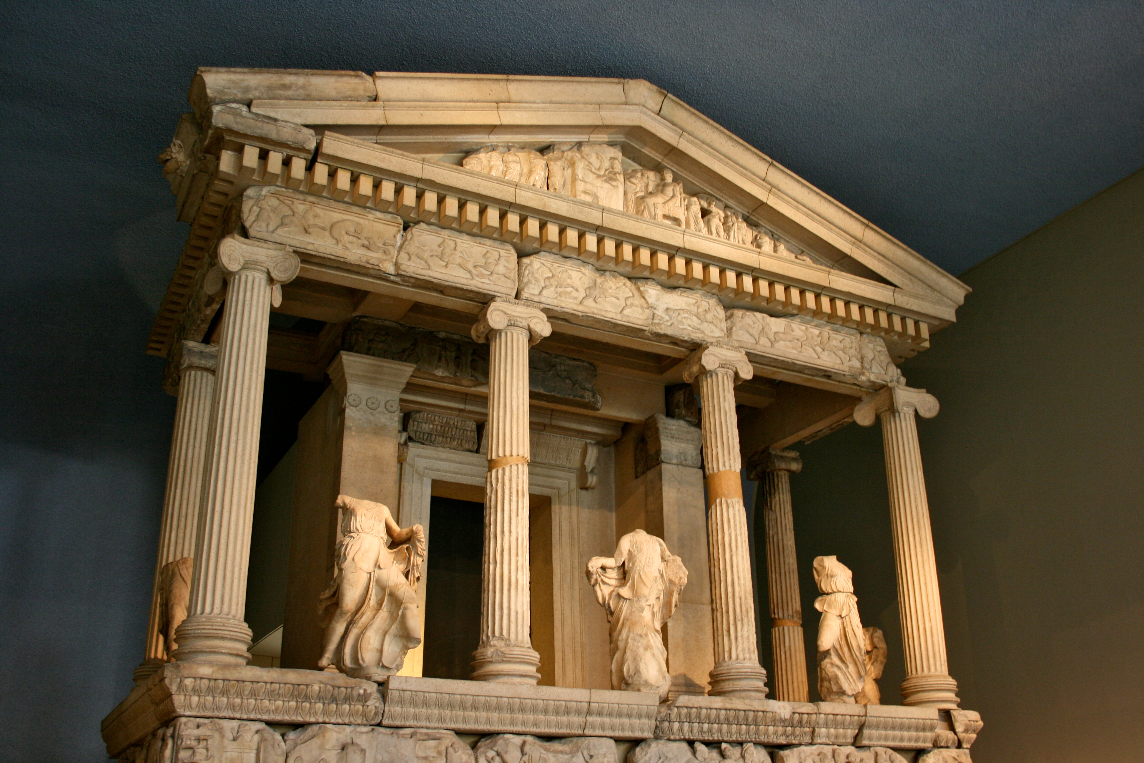 The Nereid Monument at the British Museum.